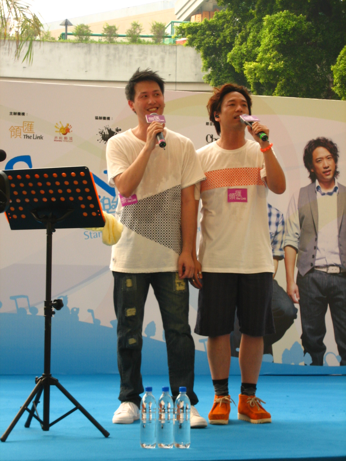 Hong Kong music group "Swing", performing in Stanley